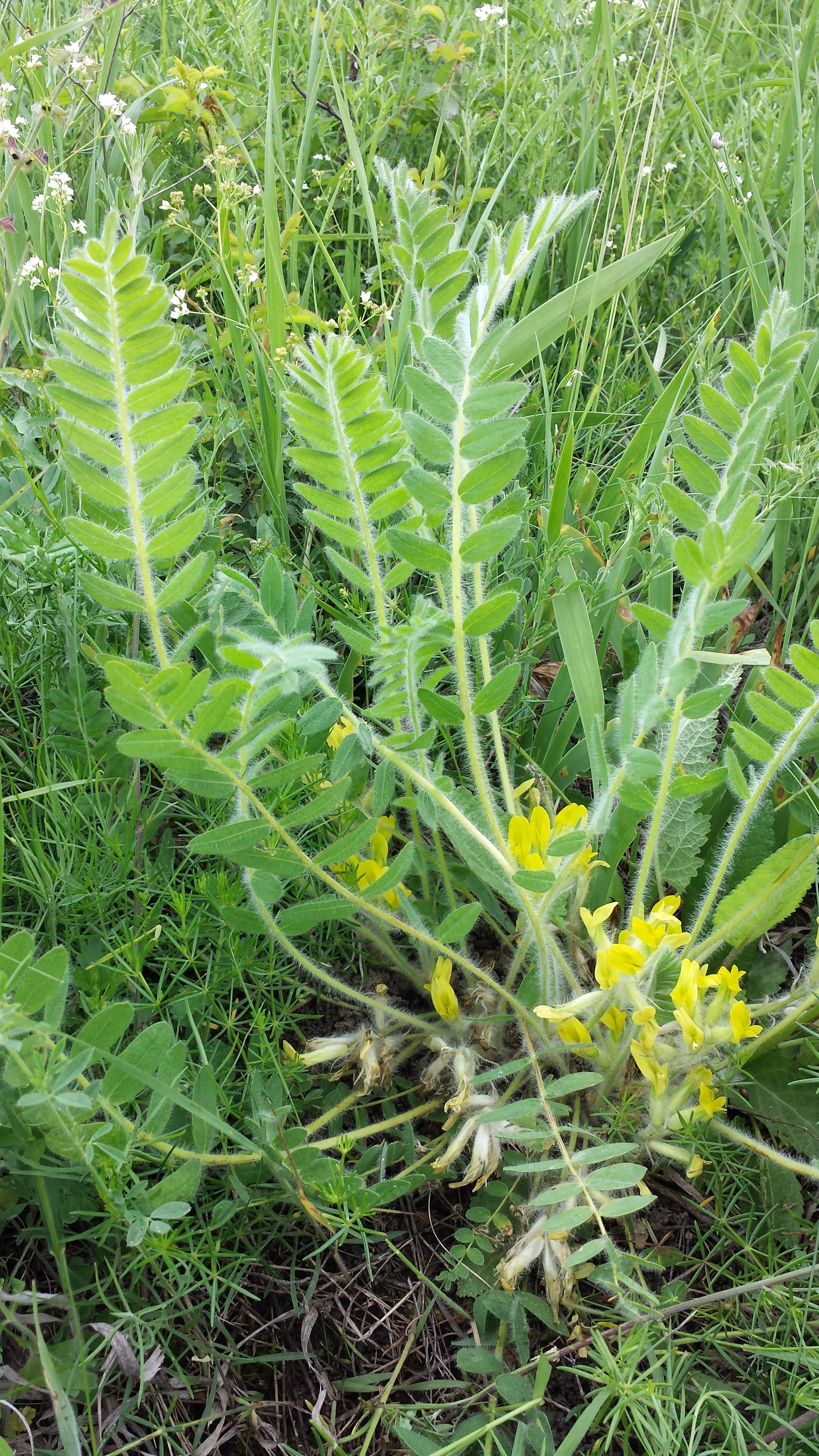 Taxon: Astragalus exscapus (sensu Fischer et al. EfÖLS 2008) Location: natural monument "Mühlberg" near Goggendorf, district Hollabrunn, Lower Austria - ca. 260 m a.s.l. Habitat: dry grassland